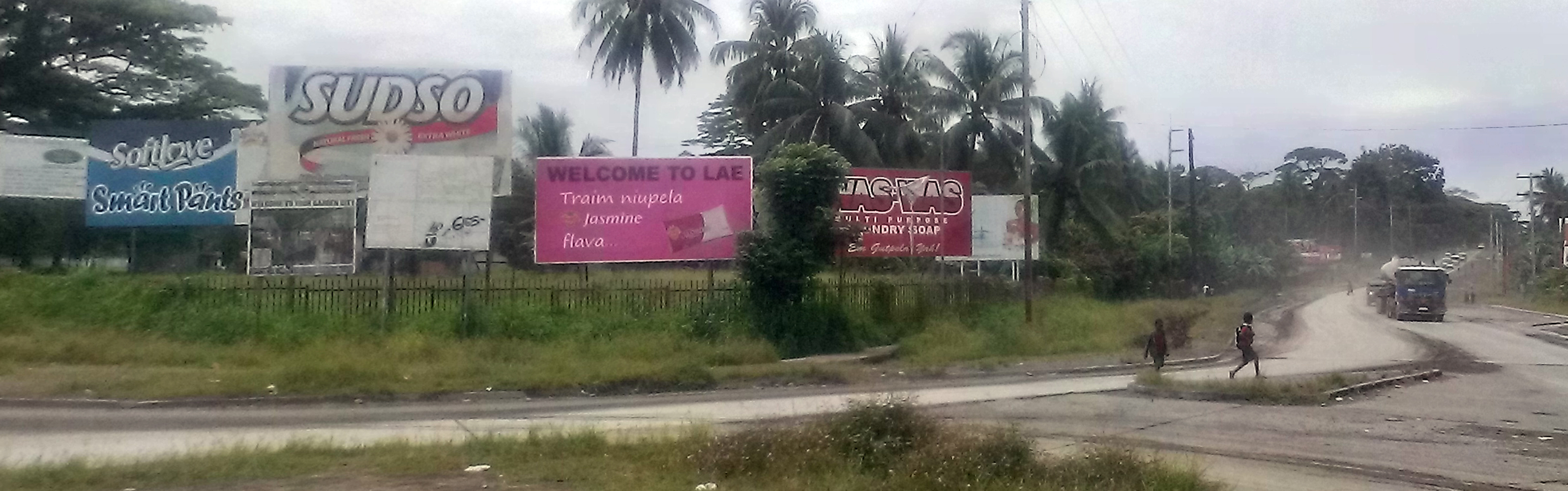 Panoramic photo at Bugandi showing welcome signs, Lae Papua New Guinea